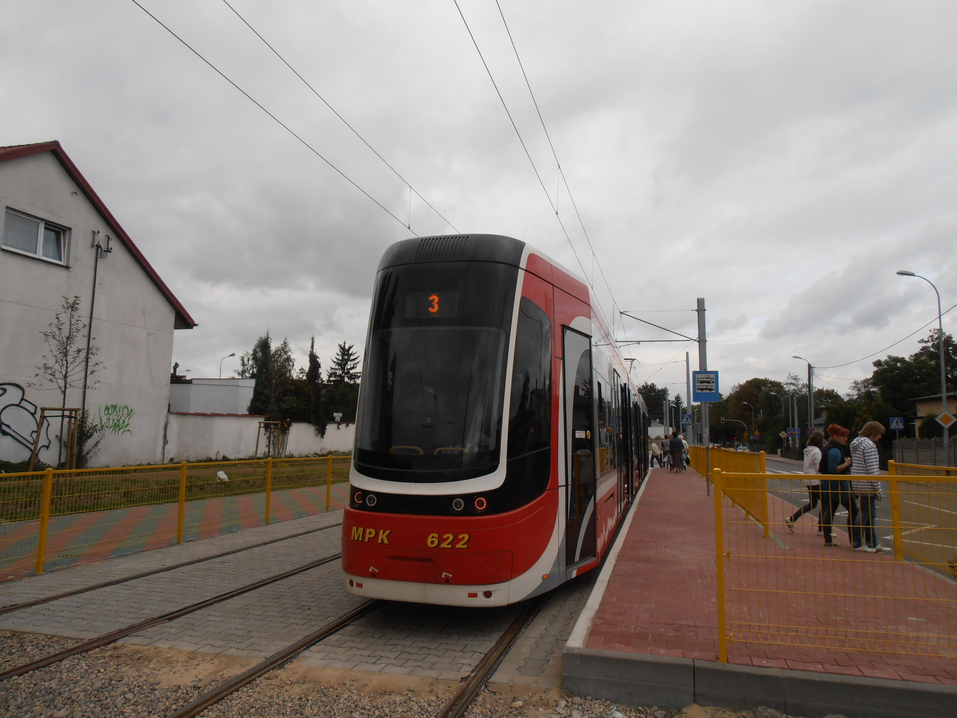 PESA TWIST on Limanowskiego Street in Częstochowa